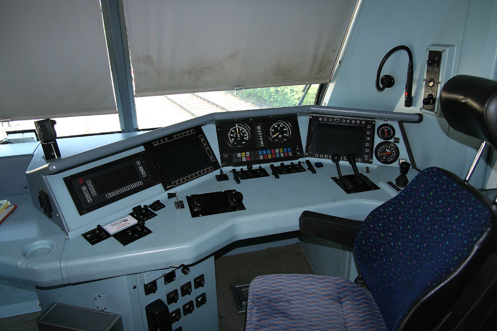 Driver's cab on a DB class 101